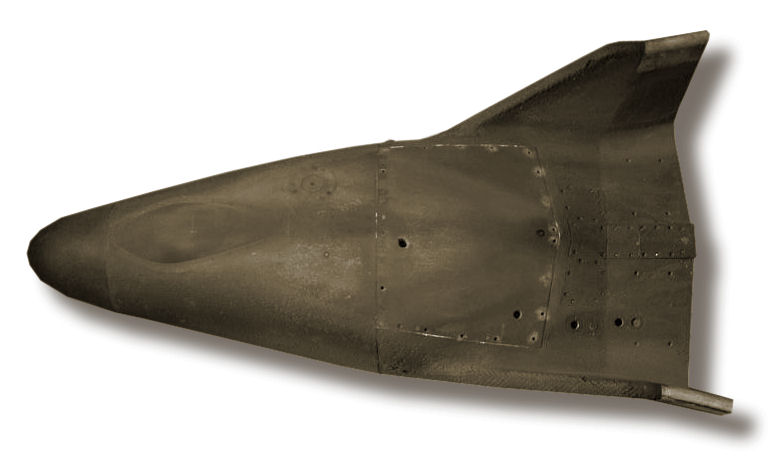 X23 PRIME SV-5D with white background